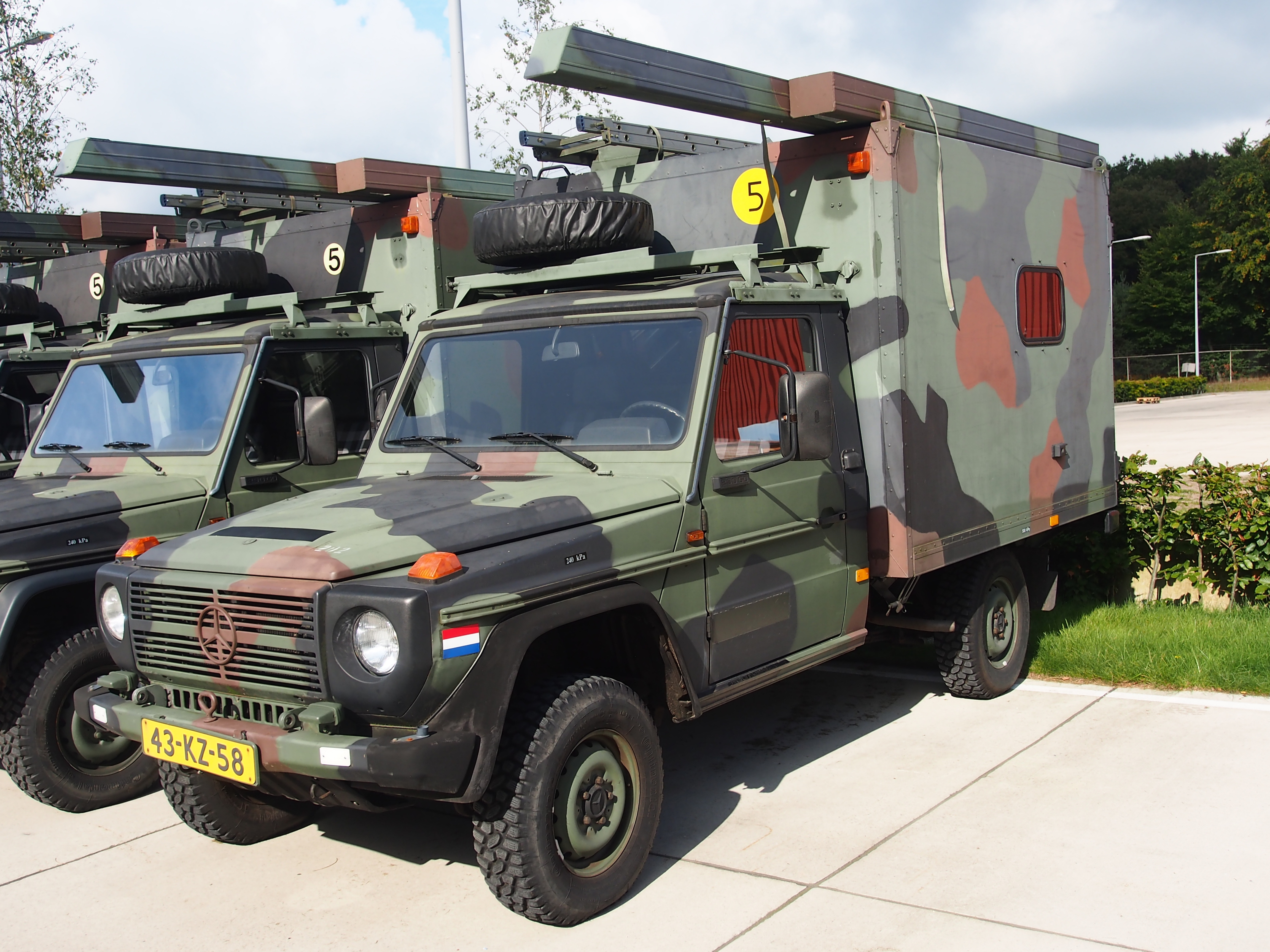 Photographed at the Cavalerie museum, Amersfoort, The Netherlands.